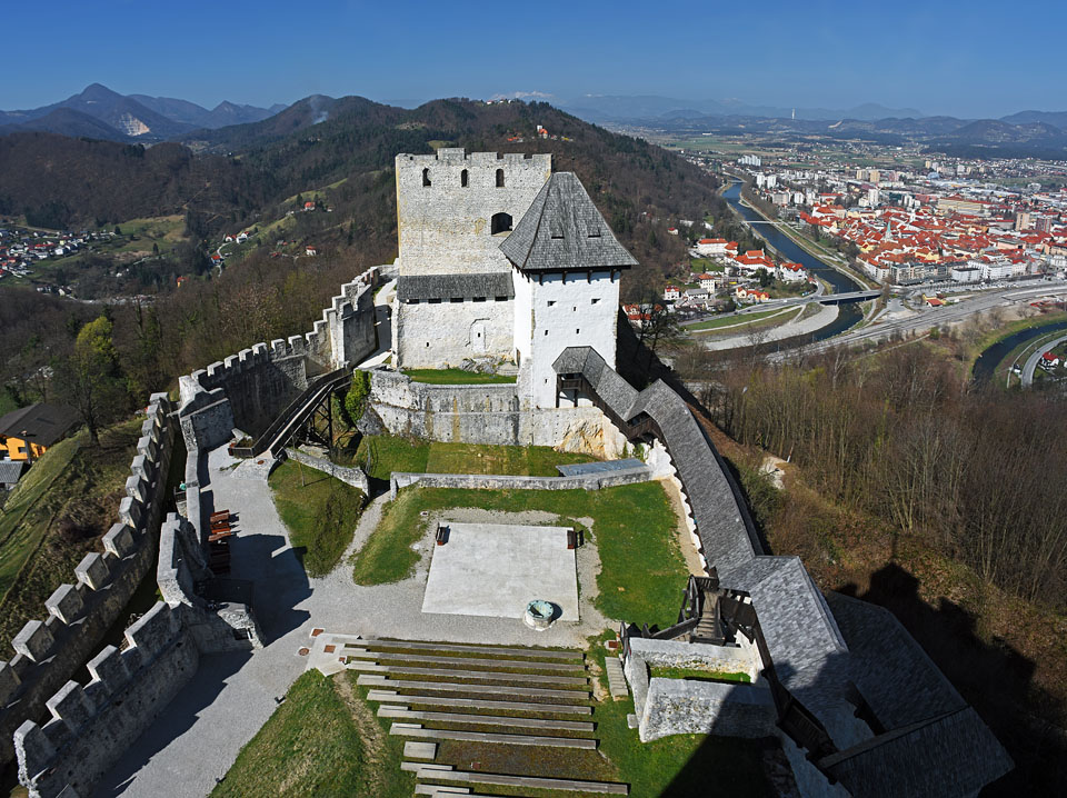 Celje old castle is nicely renovated for tourists visit.